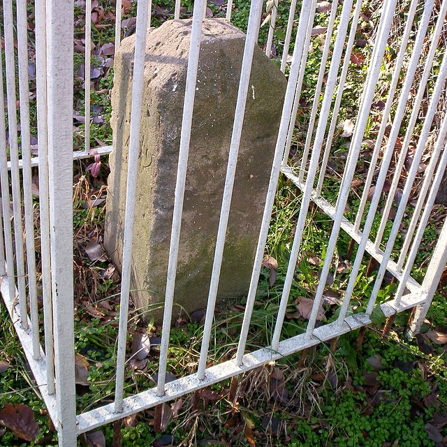 District of Columbia boundary stone NE 9, that is the stone 9 miles southeast of the northernmost corner of DC. Placed in 1791-1792 by Andrew Ellicott and Benjamin Banneker. for a map of these stones.